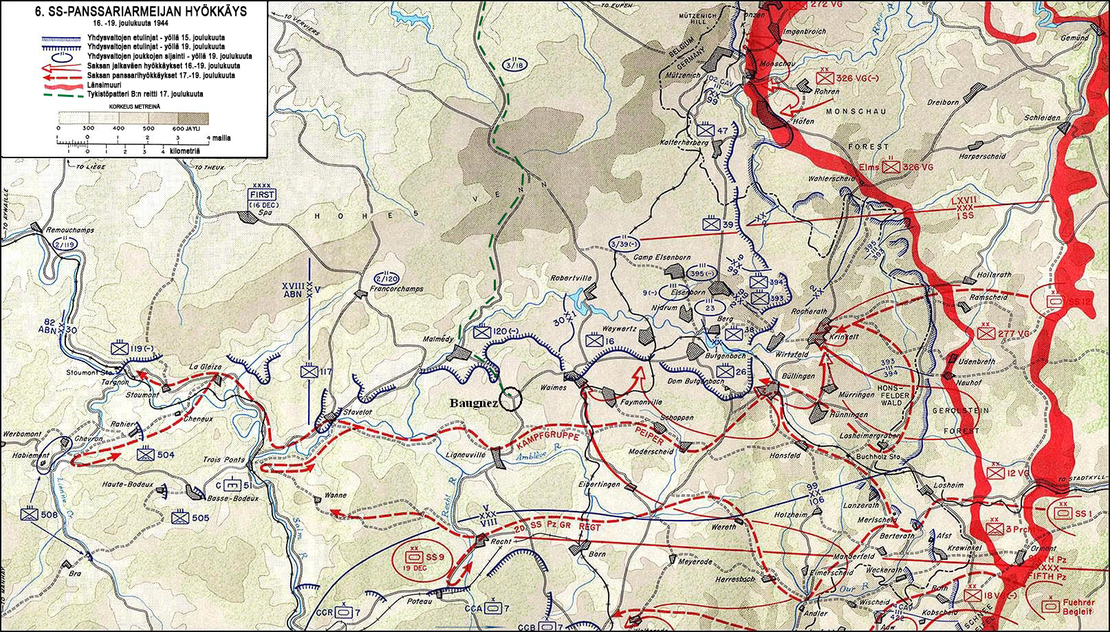 Map of Kampfgruppe Peiper path in Belgium translated in Finnish. Added path of Battery B convoy, which men were executed as POW's in Baugnez crossroads in Malmedy Massacre.